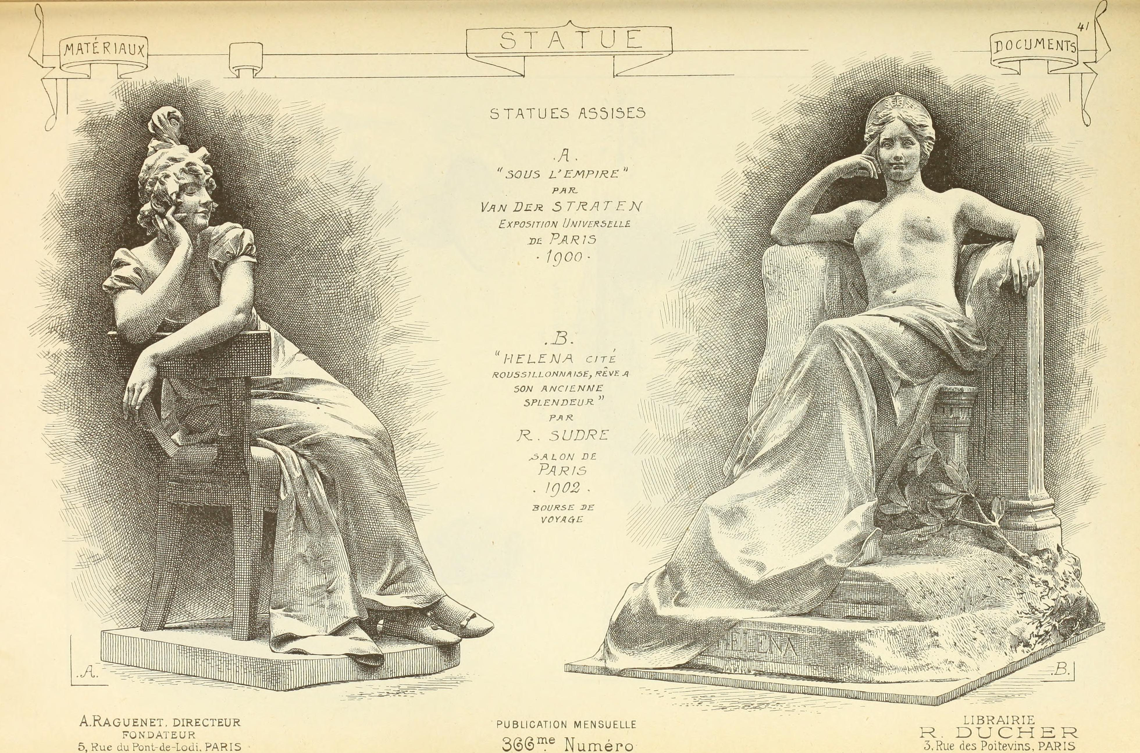 Title: Materials and documents of architecture and sculpture : classified alphabetically Year: 1915 (1910s) Authors: Subjects: Decoration and ornament, Architectural Publisher: Chicago : G. Broes Van Dort Co. Text Appearing Before Image: Le Gérant. E.CHRiSTirJ Text Appearing After Image: ; MATERIAUX STATU E A. FIQURINES2£ TANACfRA ■ ART qREC •S TA TJETTESETM TERRE CUITEW bèdtiv. J-C.